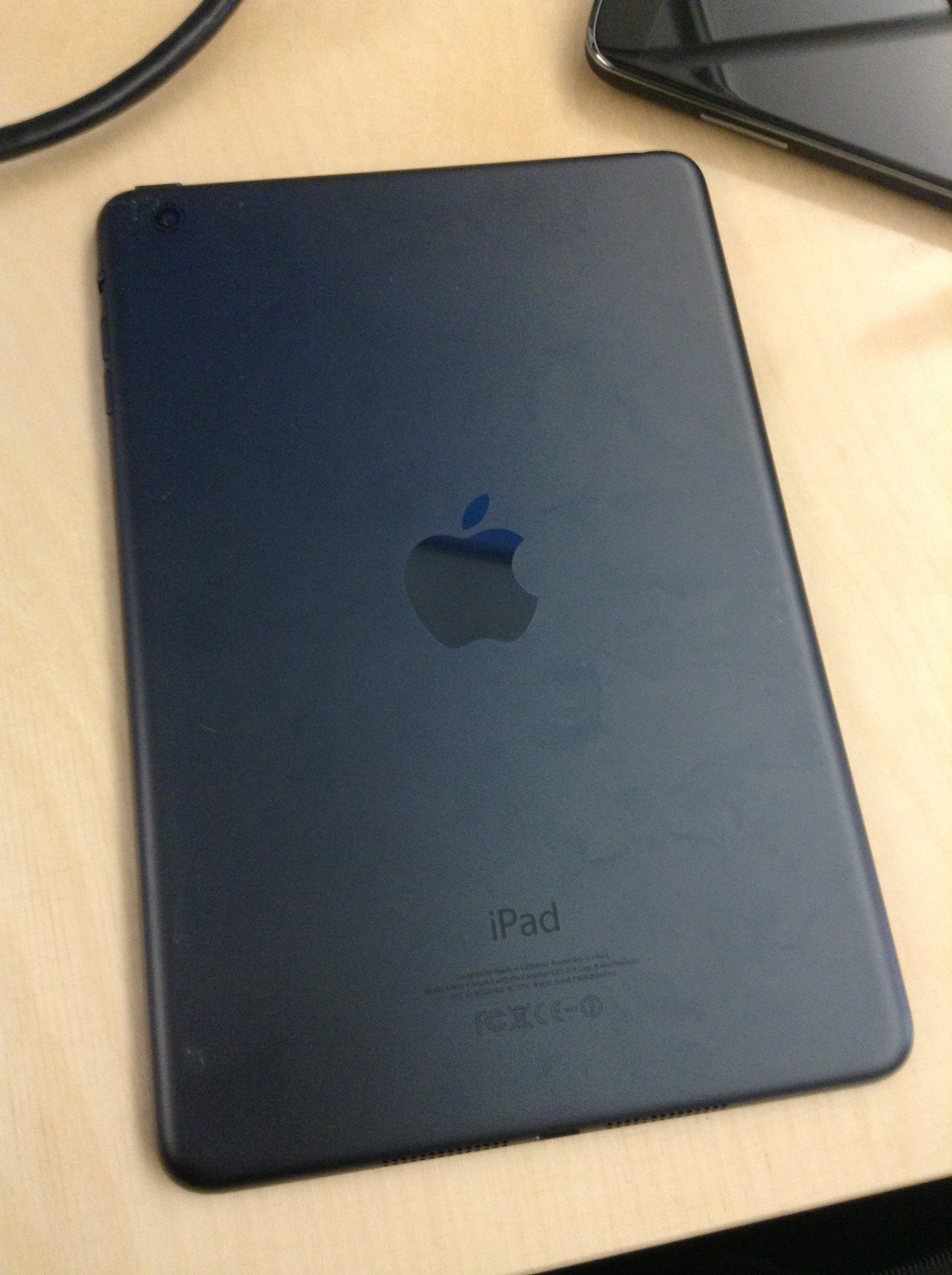 Backside of iPad mini first generation.